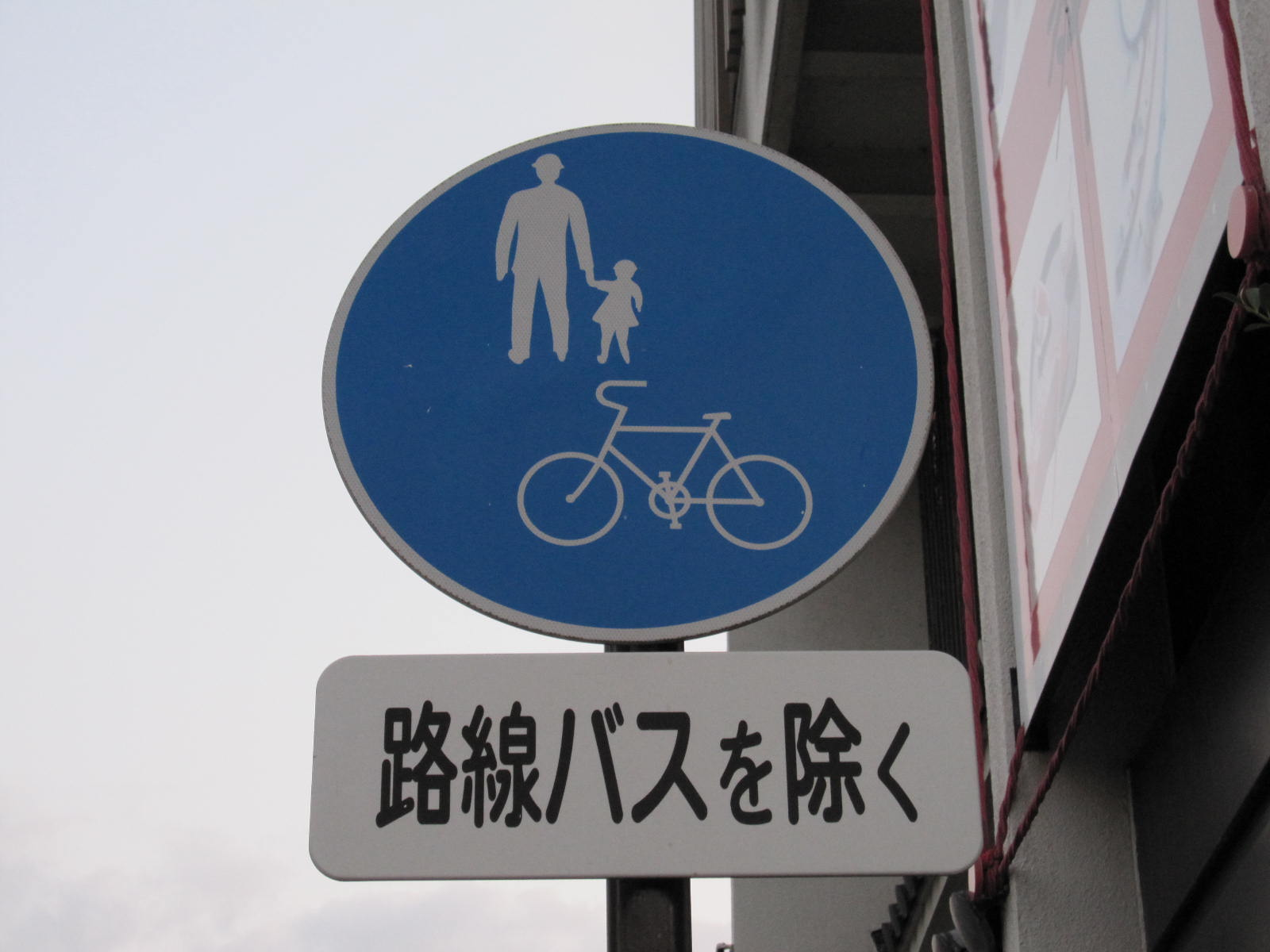 Yokoyaueshotengai sign in Kanazawa Japan